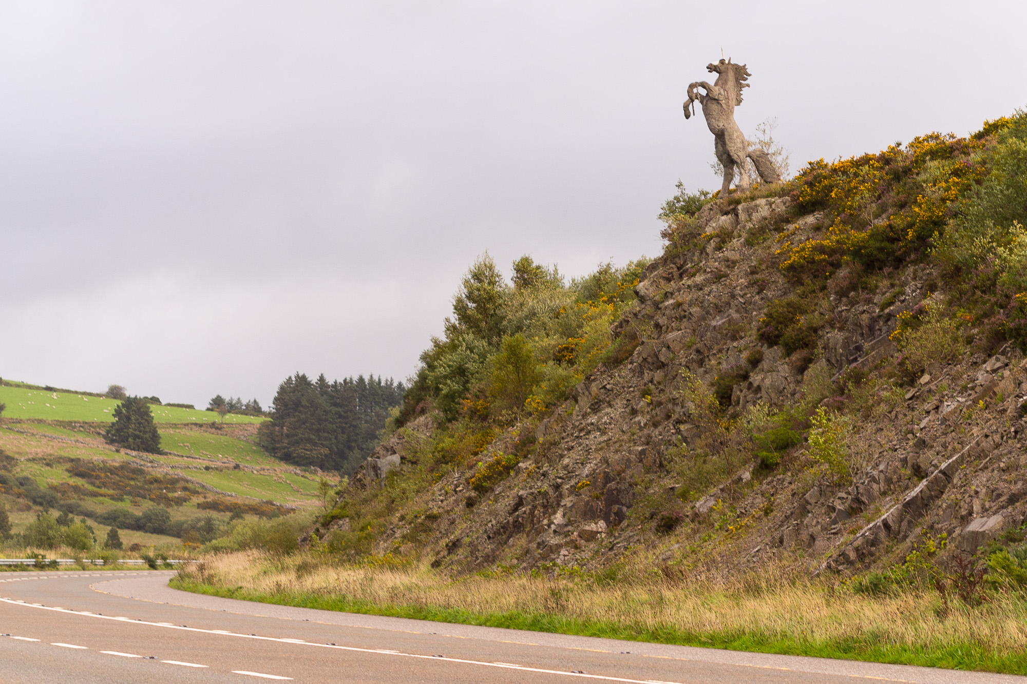 Capall Mór - The Unicorn sculpture at road N22 / Ireland